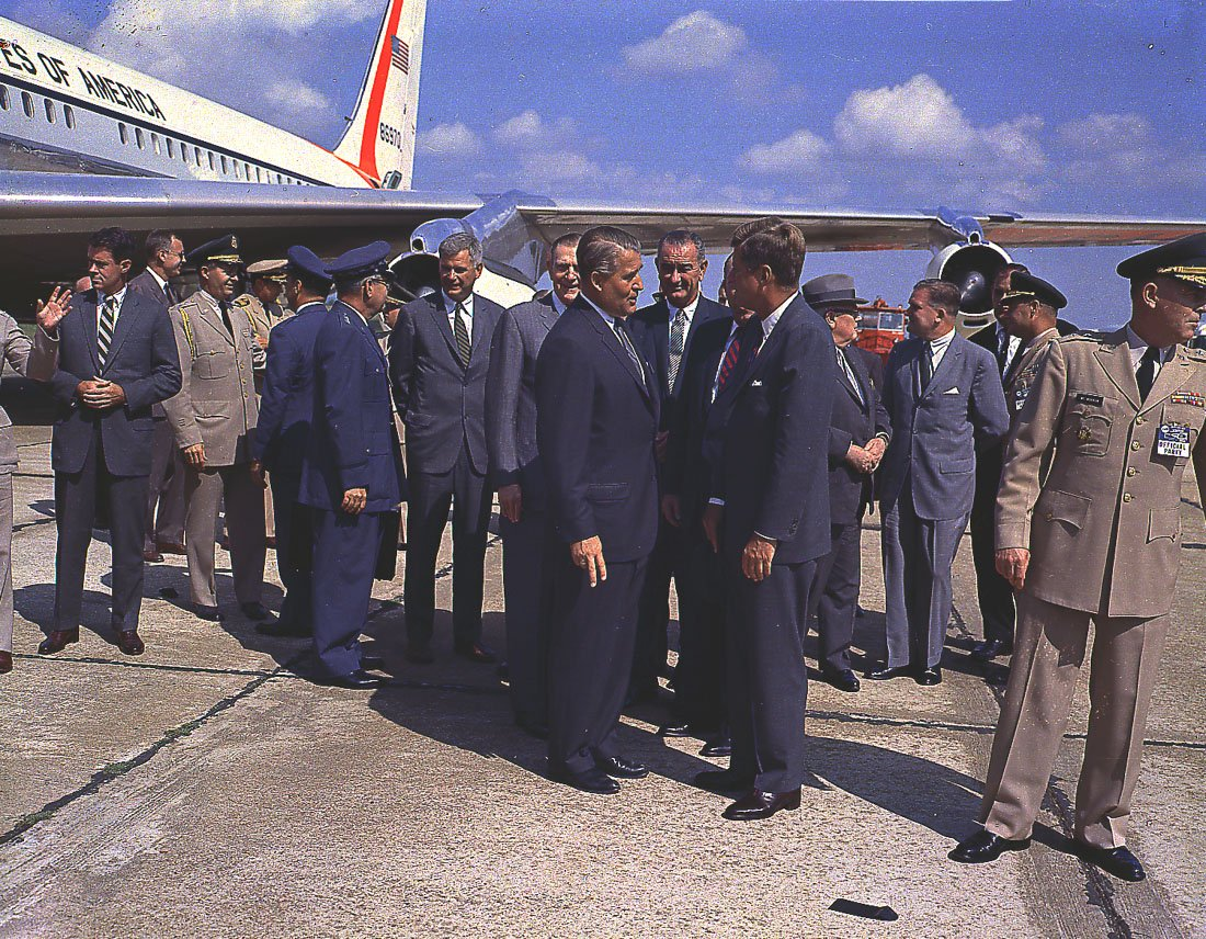 President John F. Kennedy, Vice President Lyndon B. Johnson and Marshall Space Flight Center Director Dr. Wernher von Braun at the Redstone Arsenal Airfield, September 11, 1962. Kennedy and Johnson visited the Marshall Center to tour national space facilities.